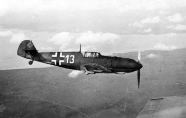 A German Messerschmitt Me 109E aircraft of 2/JG 1 (2nd Squadron, 1st Fighter Wing) in flight near Jever, Germany, in 1941.